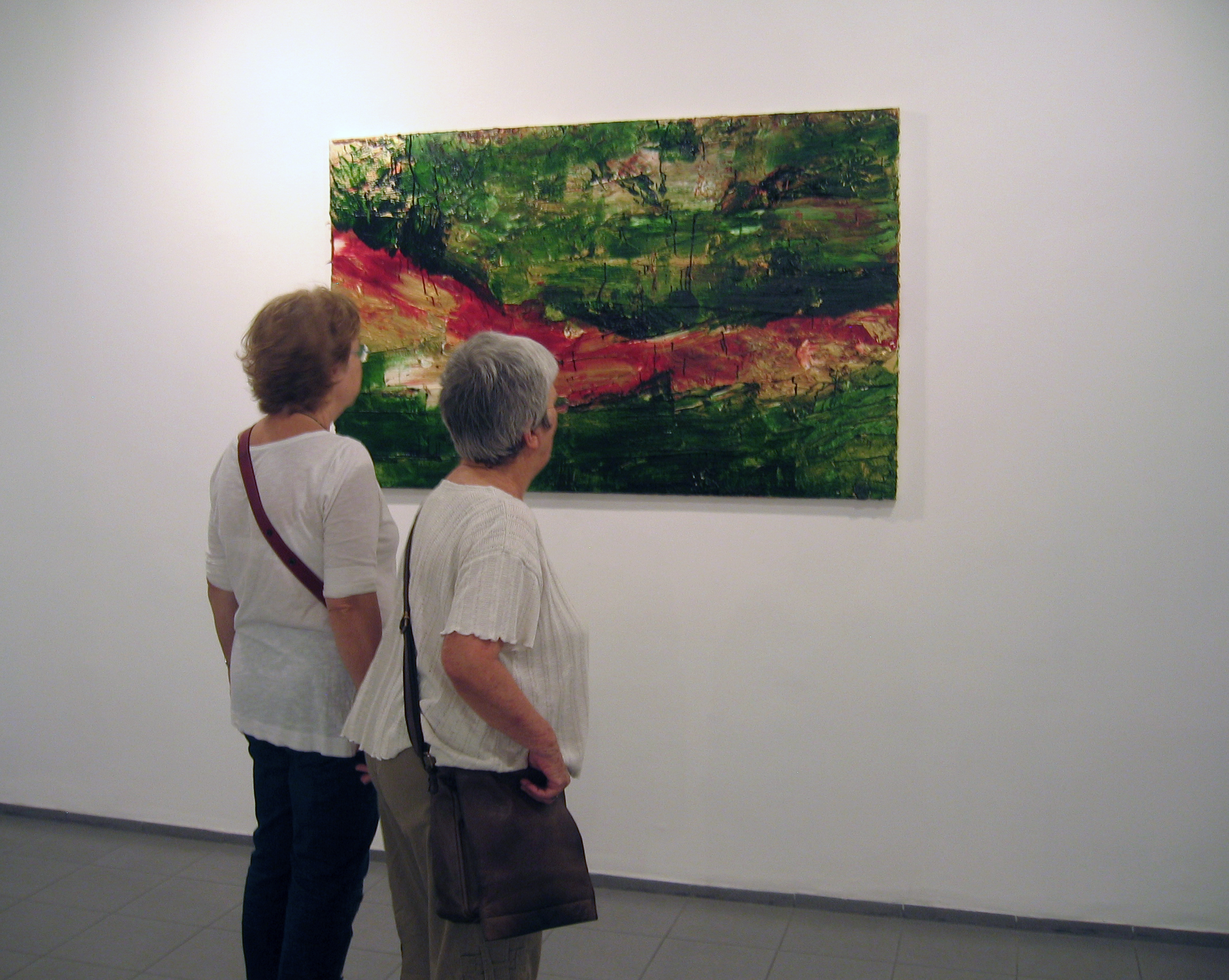 Loving Art Making Art: Opening of Moshe Gershoni Givon Gallery